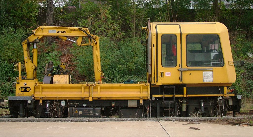 track maintenance car Skl 29.1.043 of Deutsche Bahn in Hagen goods station, North Rhine-Westphalia, Germany